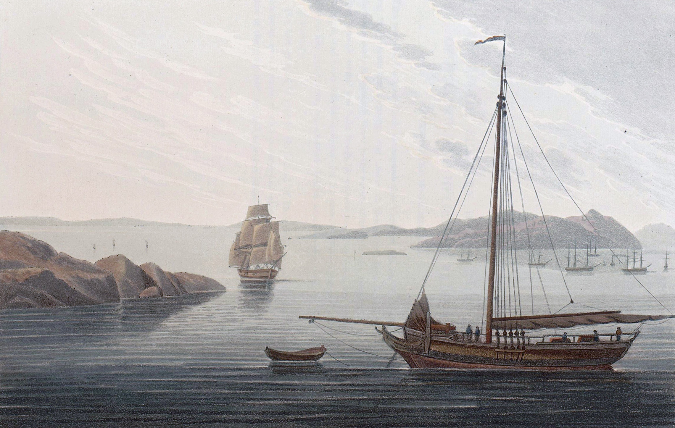 No. II. A VIEW OF HELIESUND HARBOUR. This harbour is capacious and safe; bottomed with good holding ground, and capable of containing two hundred ships of the largest burthen. It is environed with rocky islands sufficiently elevated for affording them shelter, and has two entrances ; by one or the other of which ships can get in and out, from whatever point the wind may blow. The principal islands are decorated with pines and firs; whereas those of inferior magnitude are generally nothing more than barren desolate rocks, frequented only by a vast variety of sea fowl. The waters also abound in divers kinds of fish; and seals are frequently taken on the shores. The principal or west entrance from the Skager Rack, has a dangerous rock in the mid-passage, which must be cautiously avoided. The Norway shore is in very few places level, or of a gradual ascent ; but ge nerally steep, angular and impendent: so that close to the rocks, the sea is a hundred, two hundred, nay, three hundred fathoms deep. On the long and uneven sand banks, which are generally termed storeg, or by others hauhroe, the bottom is much more sloping. These protuberances run north and south along the coast of Norway, like the sheers, though not within them. In some places they are not more than four or six leagues, in others twelve or sixteen from the main land ; whence it may be inferred that the bays are formed by them.